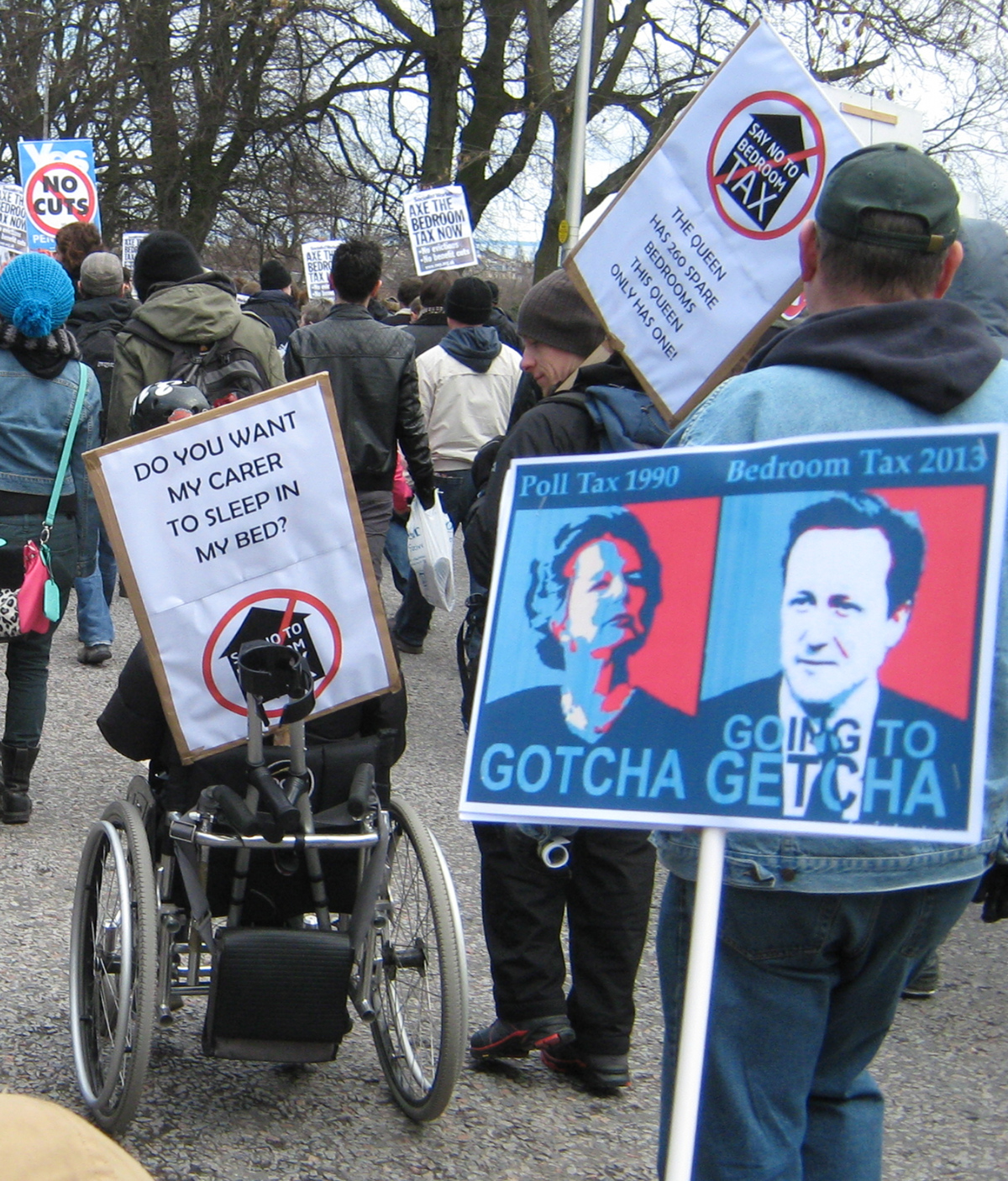 English